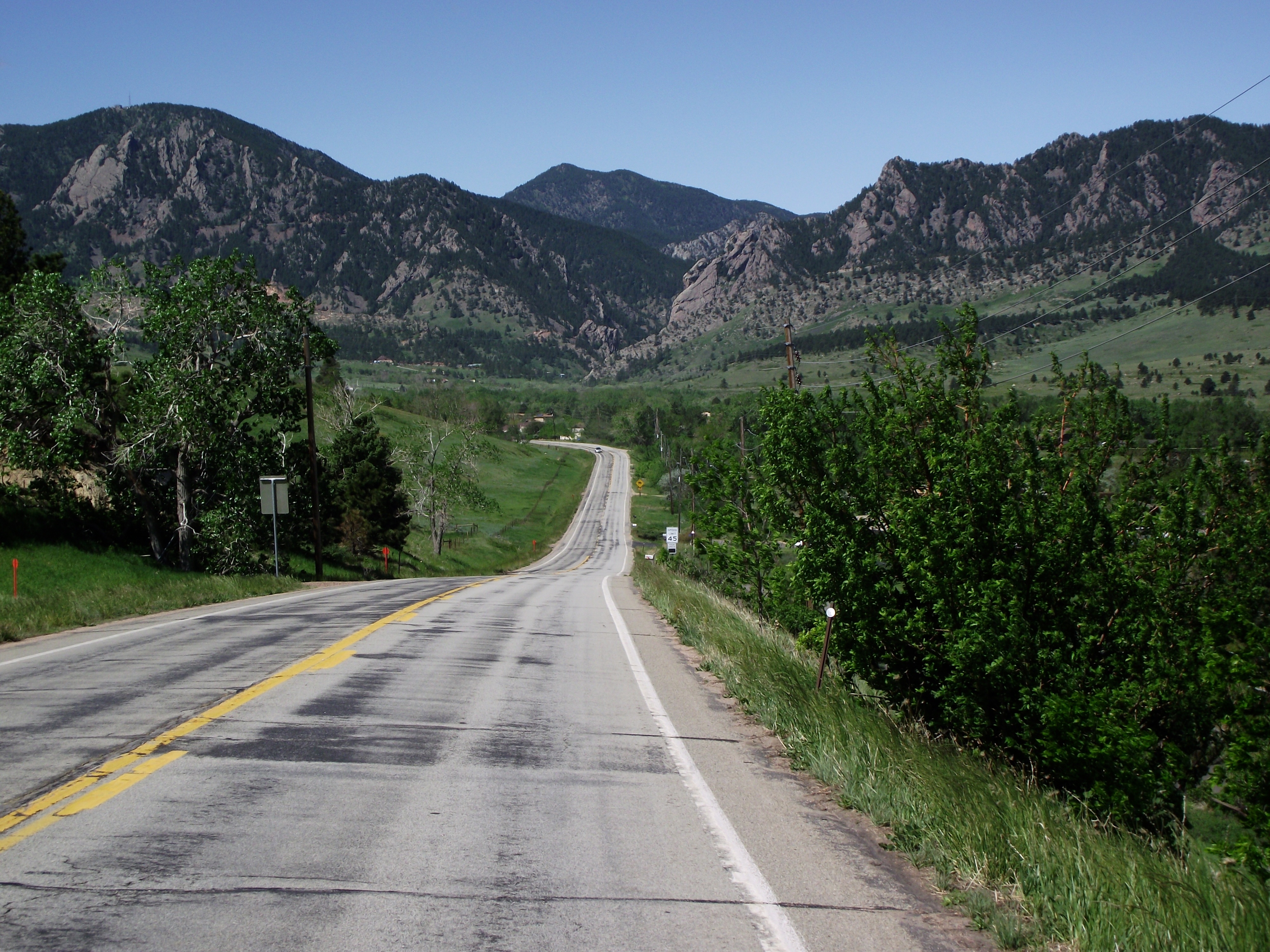 View west from Colorado State Highway 170 approaching Eldorado Springs.